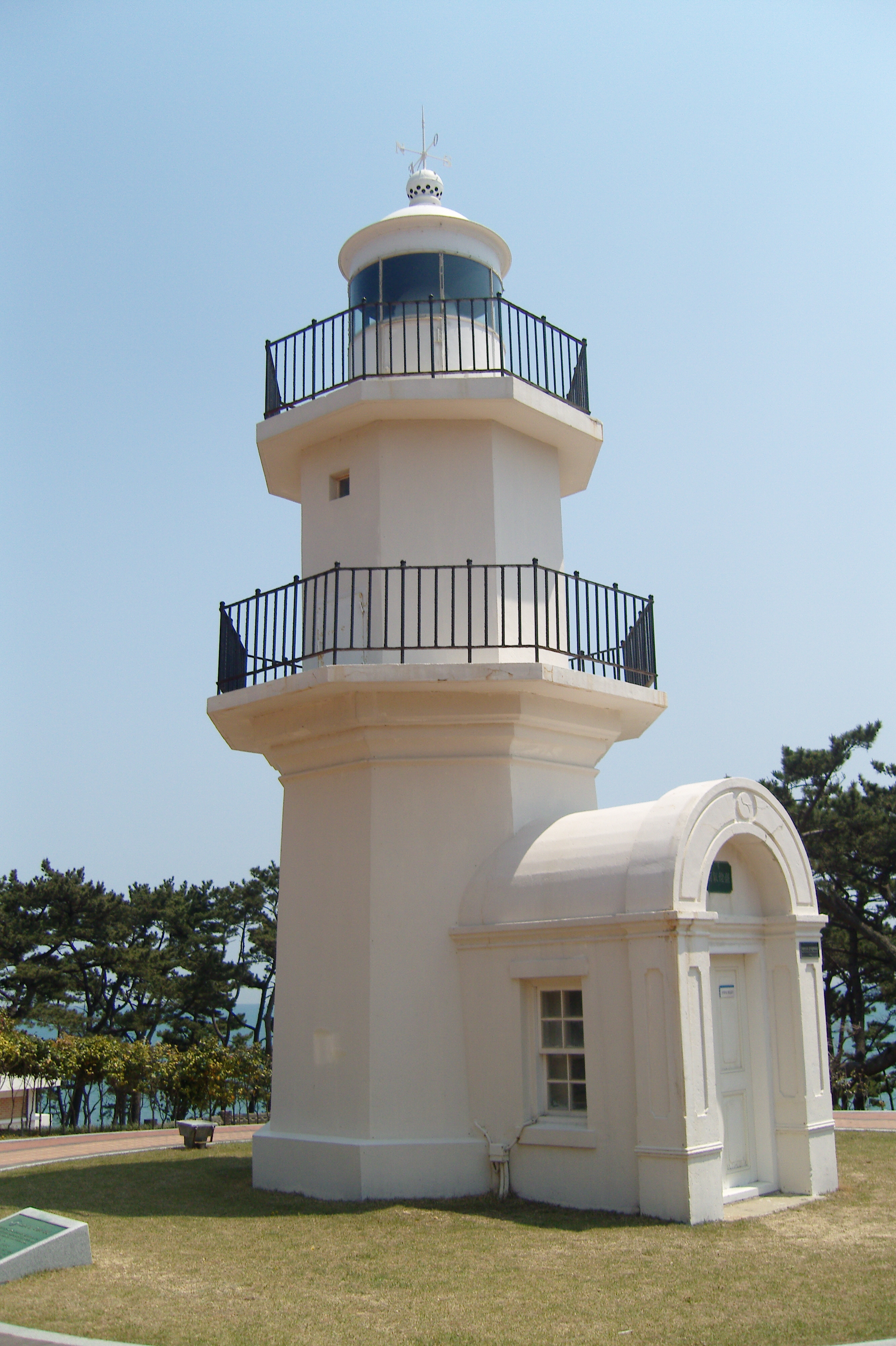 Old Ulgi Lighthouse